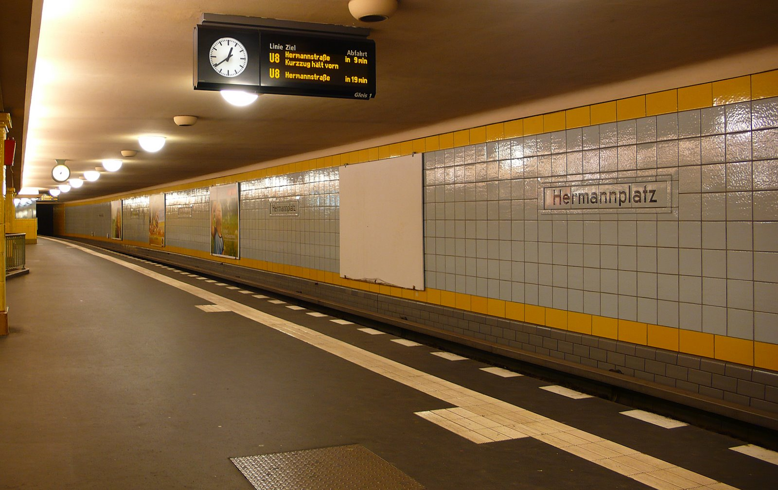 Hermannplatz subway U8